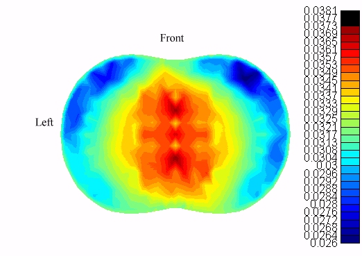 A time averaged EIT image of a cross section of a human chest see: N. Kerrouche, CN McLeod, WRB Lionheart, Time series of EIT chest images using singular value decomposition and Fourier transform, Physiol. Meas. 22 No 1 (February 2001) 147-157